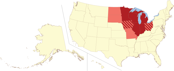 Upper Midwest states of the United States.